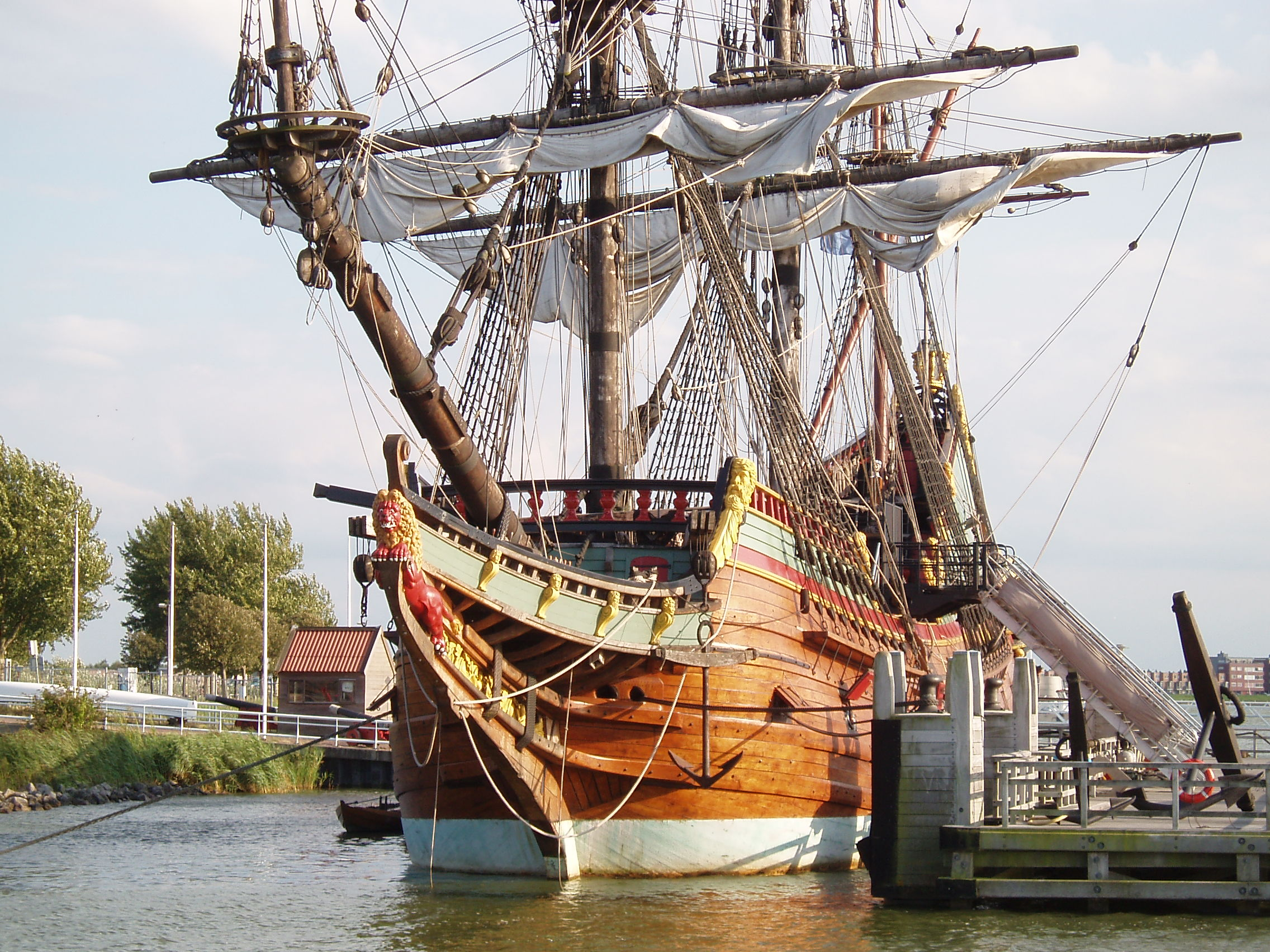 Ship Batavia - replica - in the Netherlands